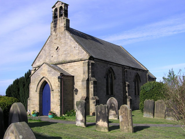 St Peter's parish church, Cleasby, County Durham, seen from the southwest